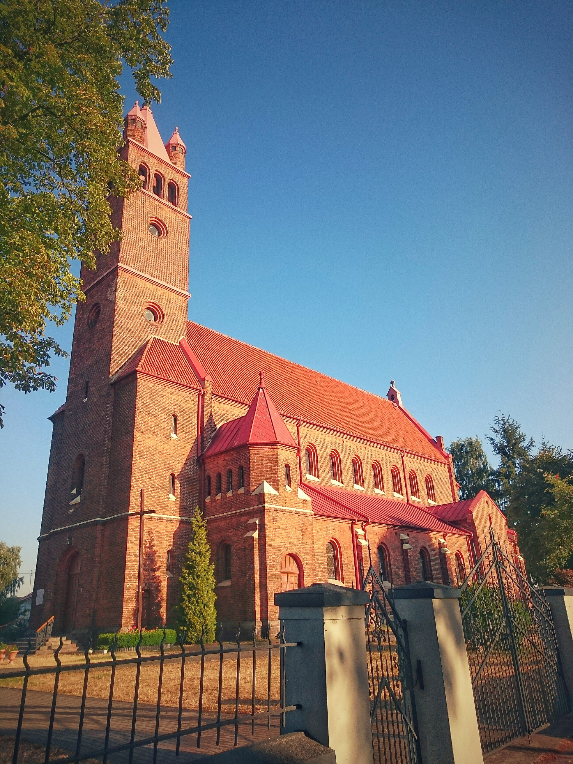 Church in Małyń (powiat of Poddębice), central Poland.